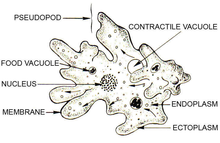 line art drawing of an amoeba.